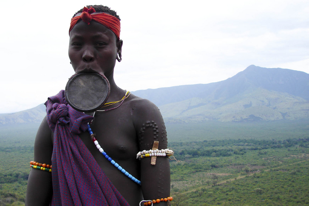 Murzi woman (Ethiopia)